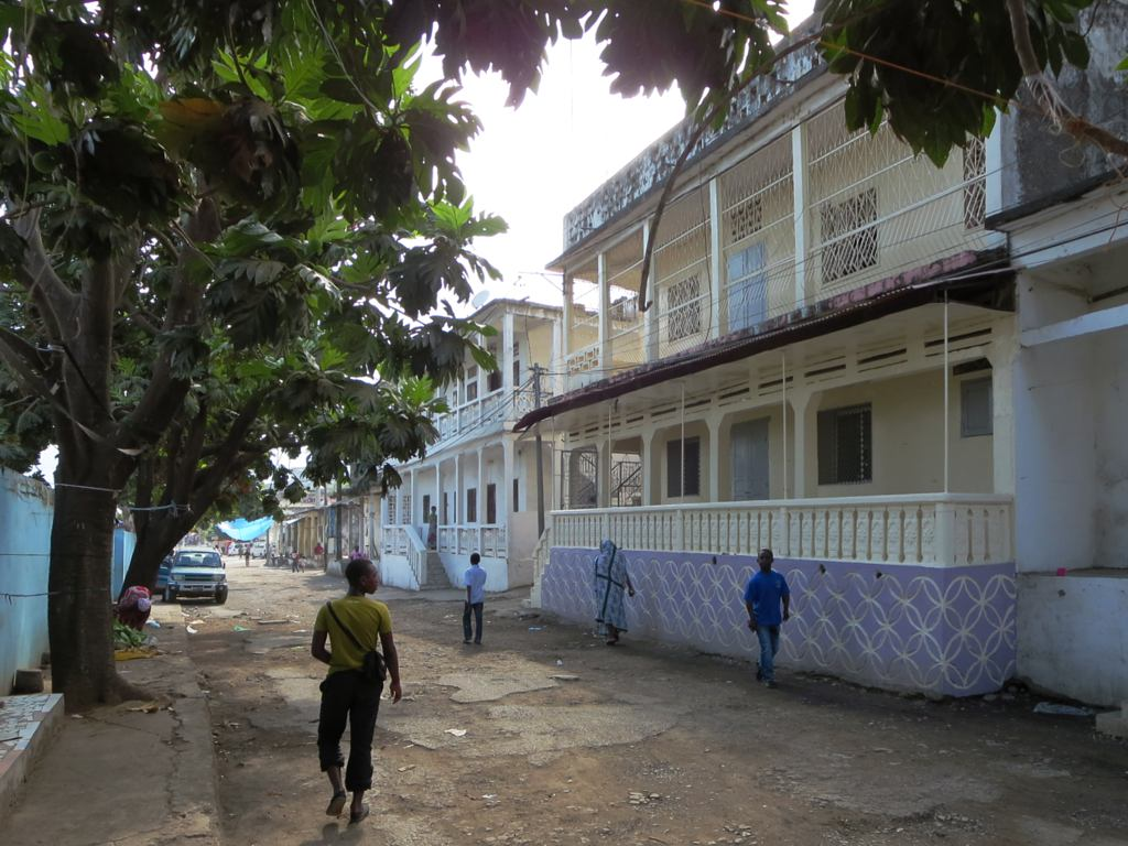 Stately mansions face a crumbling street in Mutsamudu on Anjouan Island, Union of the Comoros.